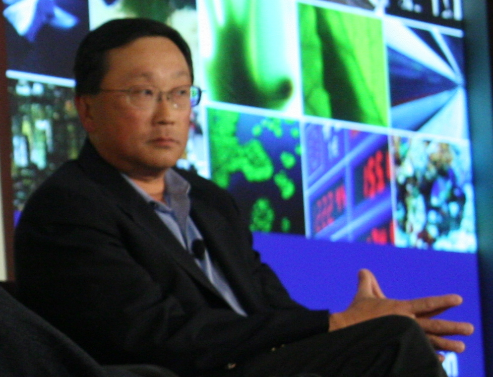 John S. Chen, reportedly from his presence at Techonomy 2010